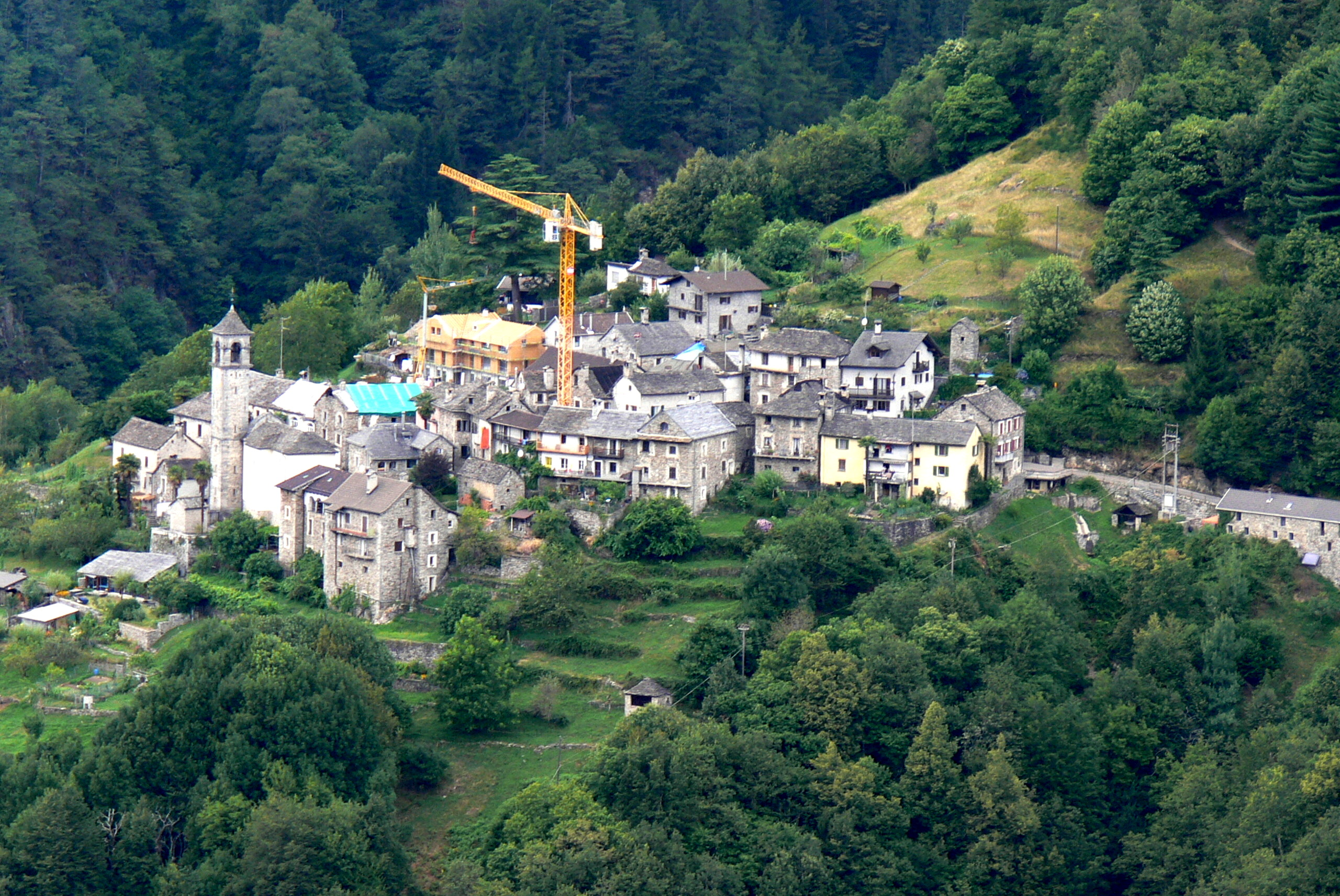 Verdasio ( Intragna / Locarno ). The mountain village Verdasio in Centovalli, seen from Rasa.